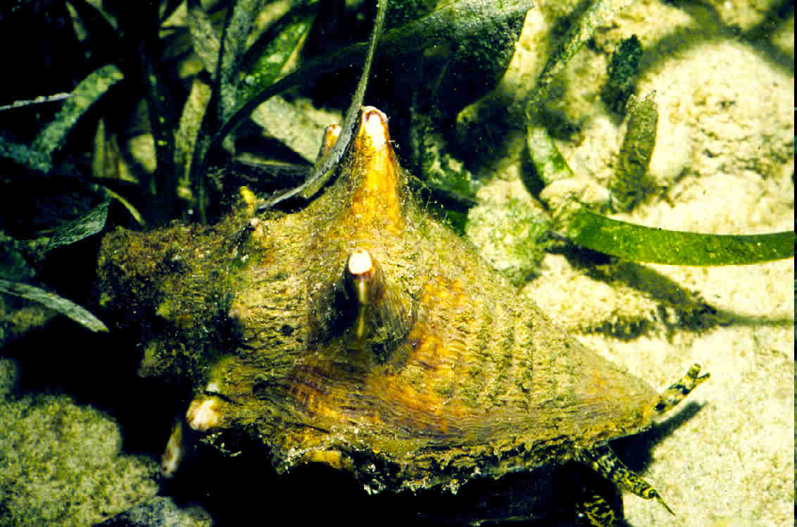 Lobatus gigas